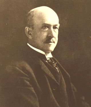 Where he taught and where it says "Free use of these portraits in Web documents, and for other educational purposes, is encouraged: users are requested to acknowledge that the images come from "The Warren J. Samuels Portrait Collection at Duke University."" Questions: collection's director, Professor E. Roy Weintraub, at .